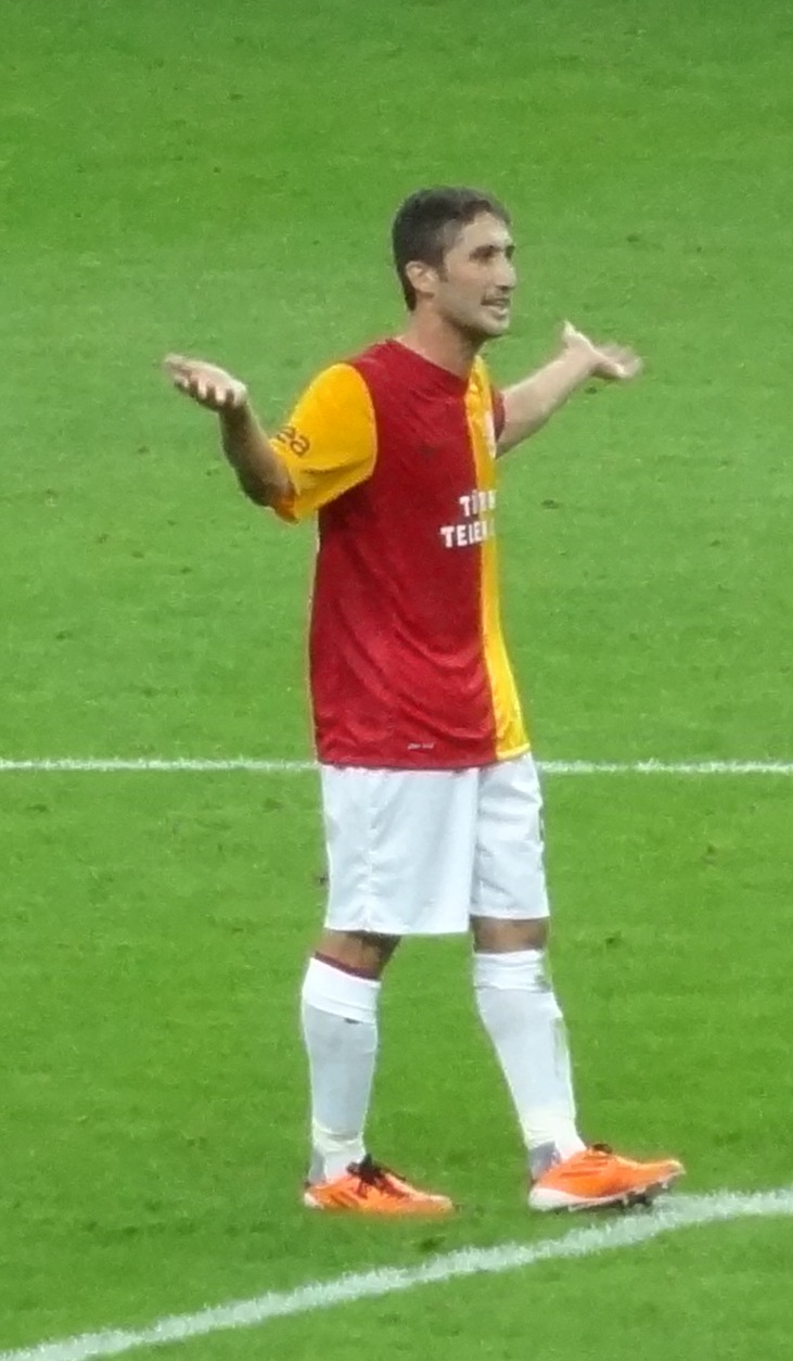 sabri sarıoğlu